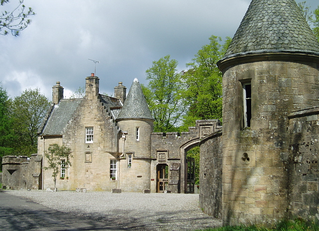 The impressive entrance to Lanrick Castle, one-time seat of the Clan McGregor. The castle, despite being a listed building, fell into disrepair and was controversially demolished by its owner in 2002.